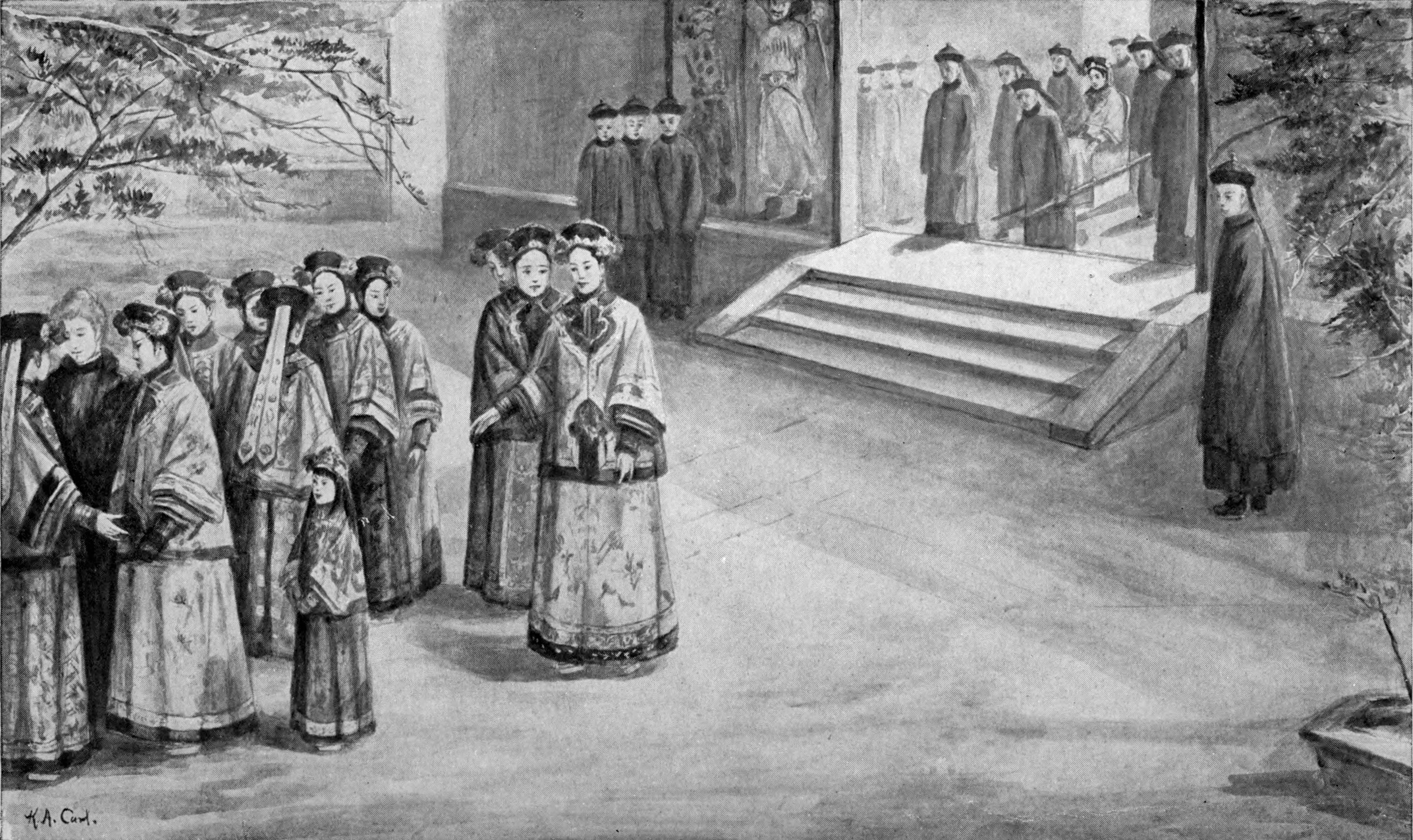 Court in the Winter Palace - "Her Majesty Comes".